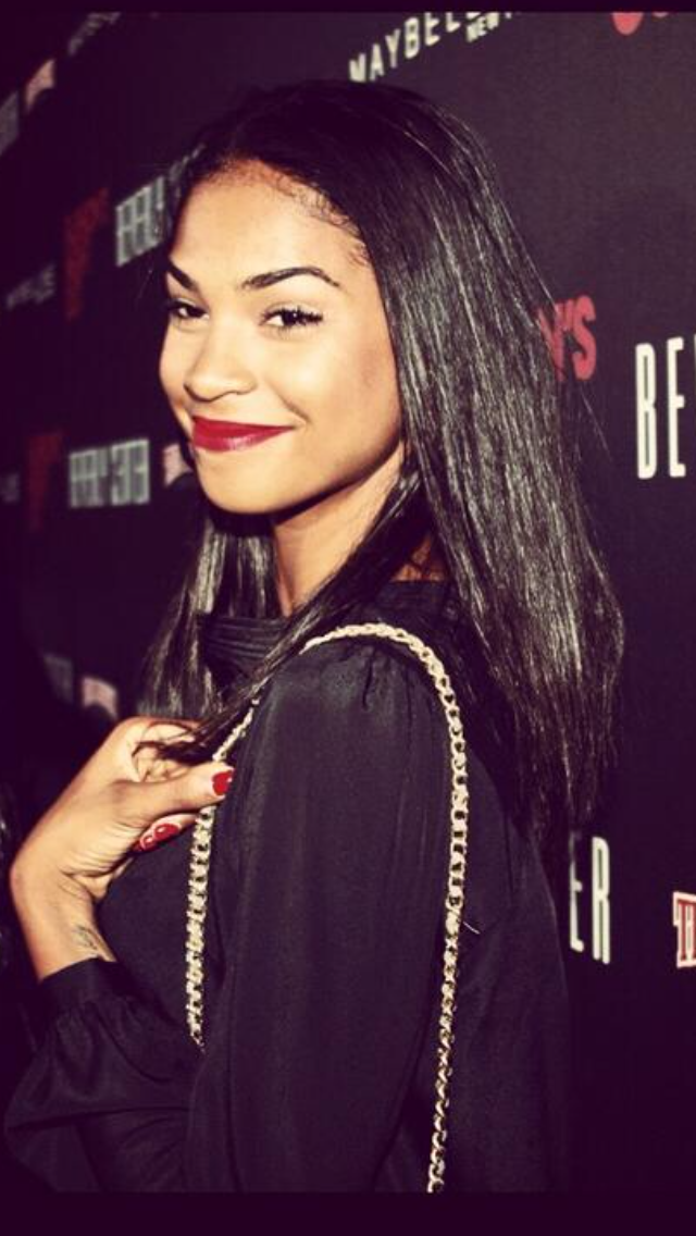 Aeriél-Miranda, Hollywood, CA.